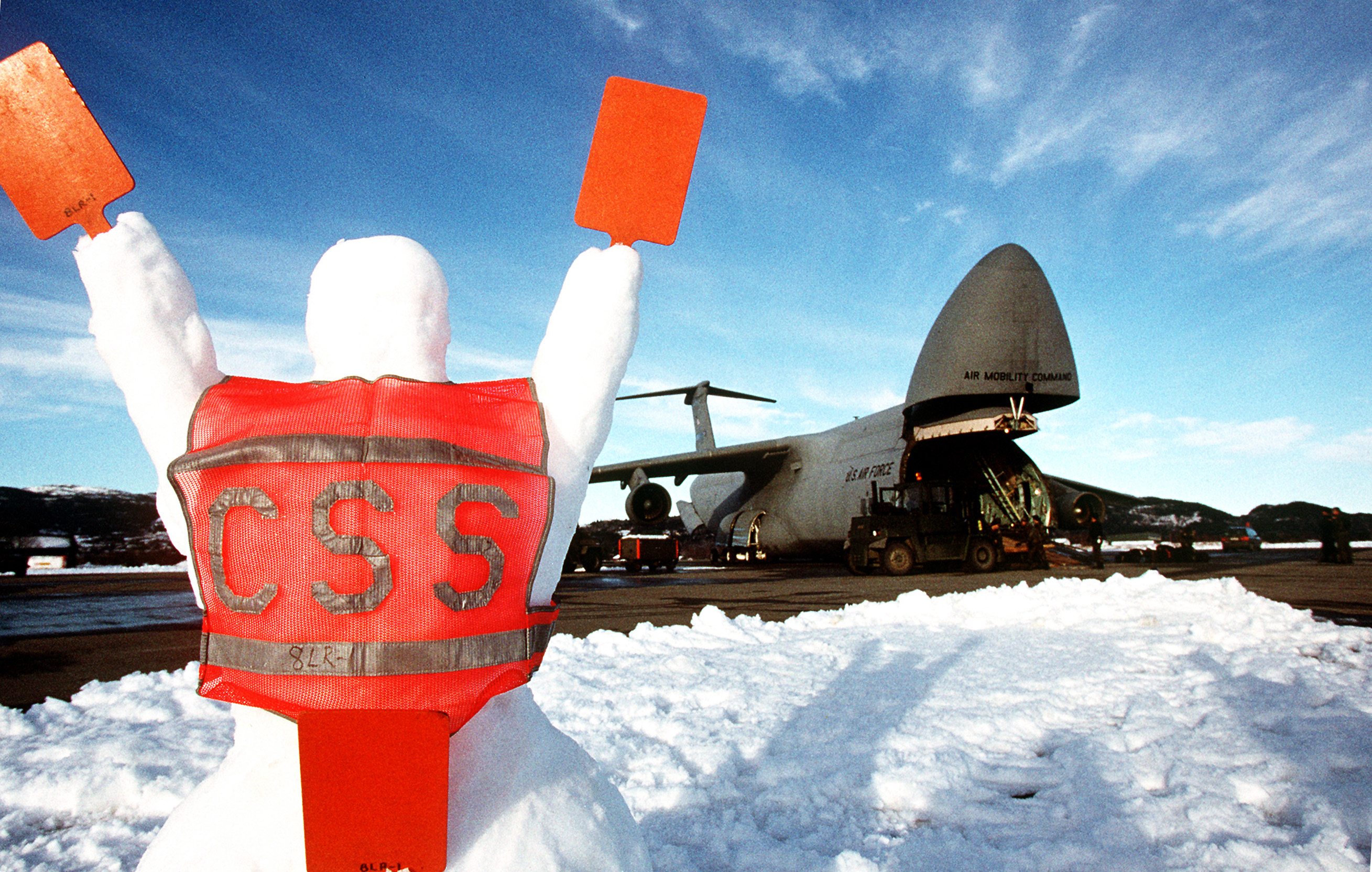 A snowman signals as he marshalls aircraft at the end of the ramp in Trondheim, Norway. Just 12 hours earlier, the aircrew basked on the beaches of southern Spain; now they face the frosty, frigid conditions of Scandinavia. This photograph is part of the article "In a "Galaxy' Far, Far Away" from the October 1999 issue of Airman Magazine.